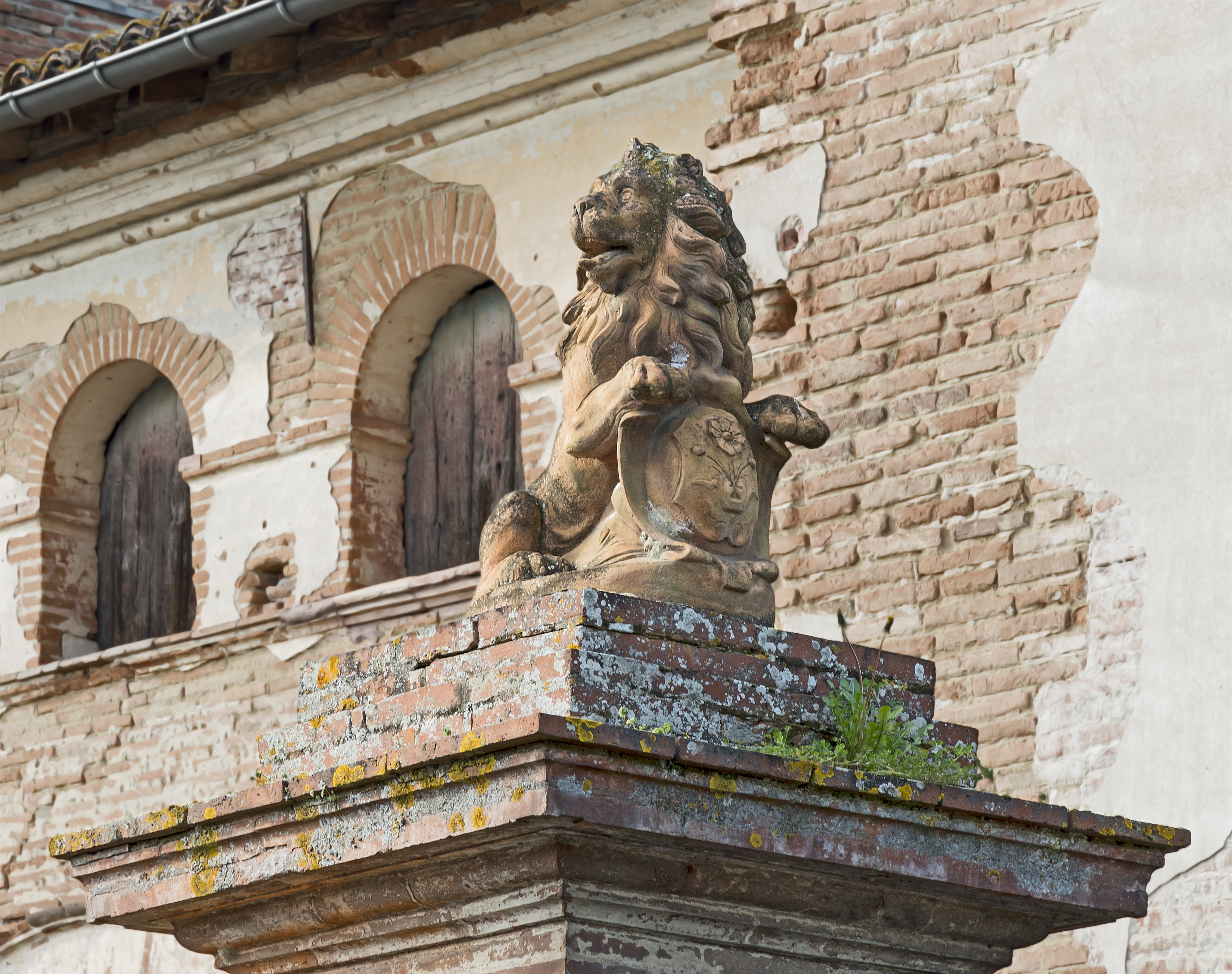 Lion Terracotta, from Auguste Virebent Launaguet.